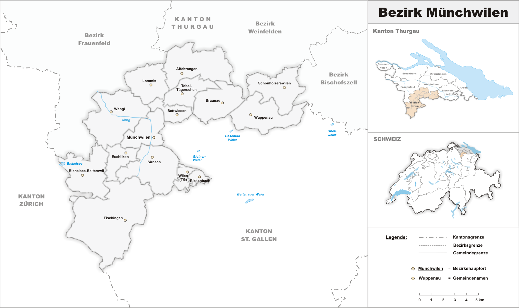 Municipalities in the district of Münchwilen